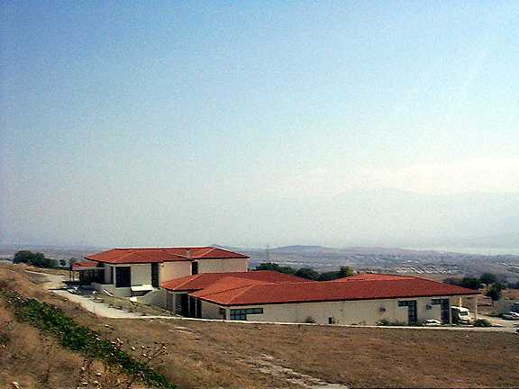 View from outside, image from the Archaeological Museum, Aiani, West Macedonia, Greece